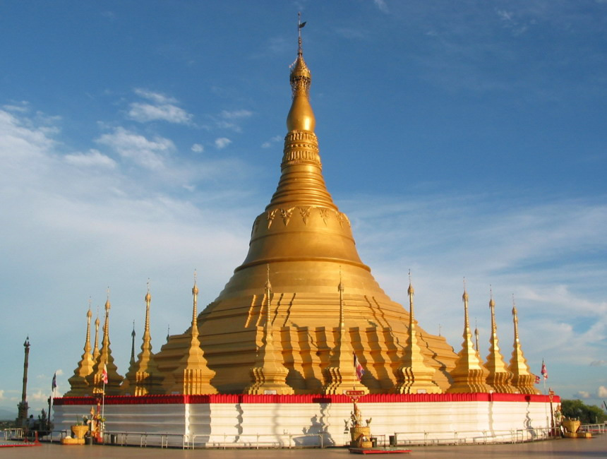 Shwedagon Clone pagoda